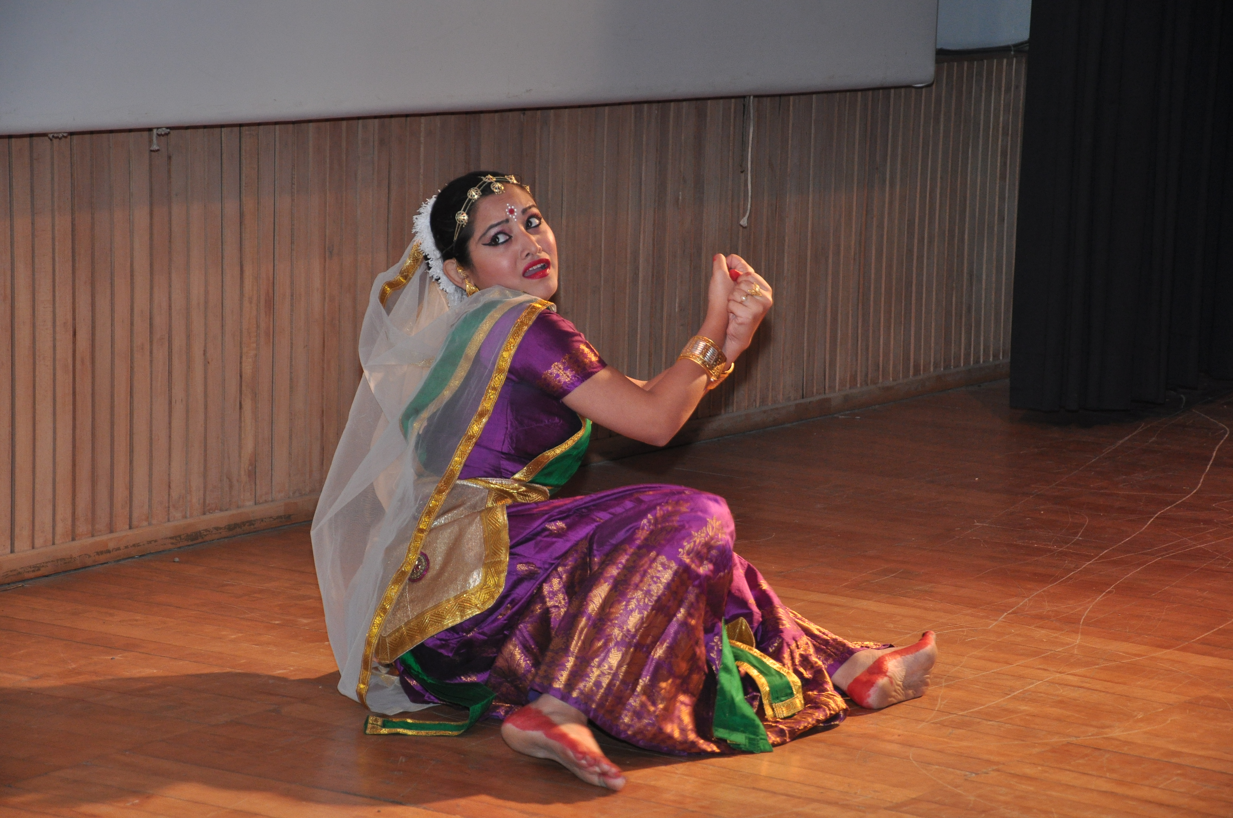 Sattriya Dance by Meenakshi Medhi